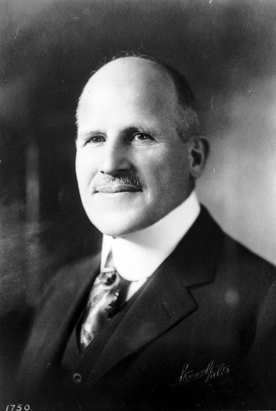 Portrait of Moses Hazeltine Sherman.